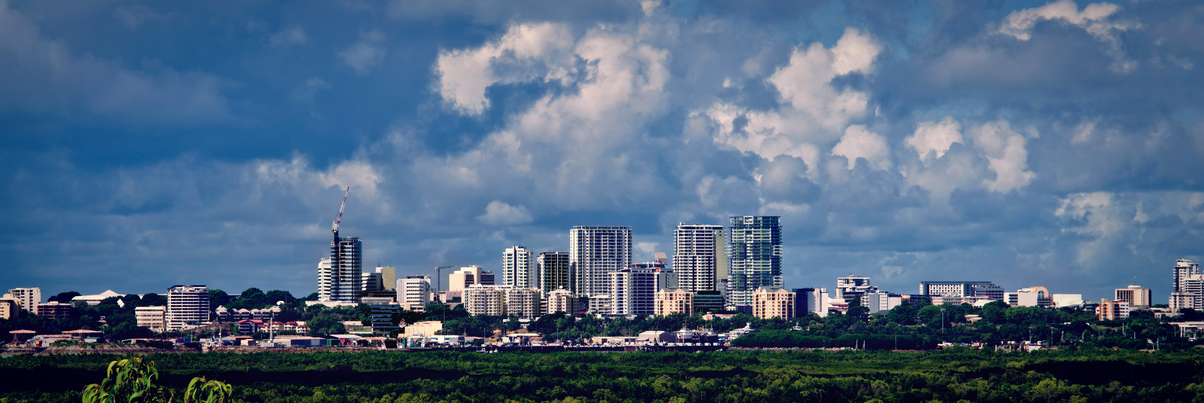 Darwin skyline